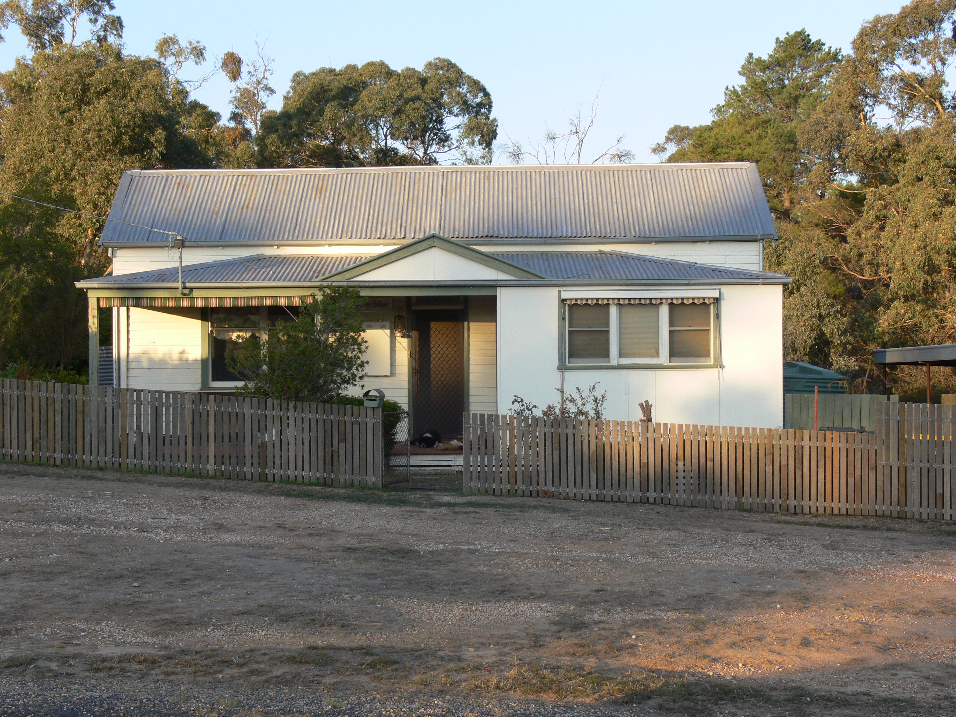 House in the township of Avoca, Victoria showing portion of the verandah enclosed to make an extra bedroom. This is made of asbestos sheeting.